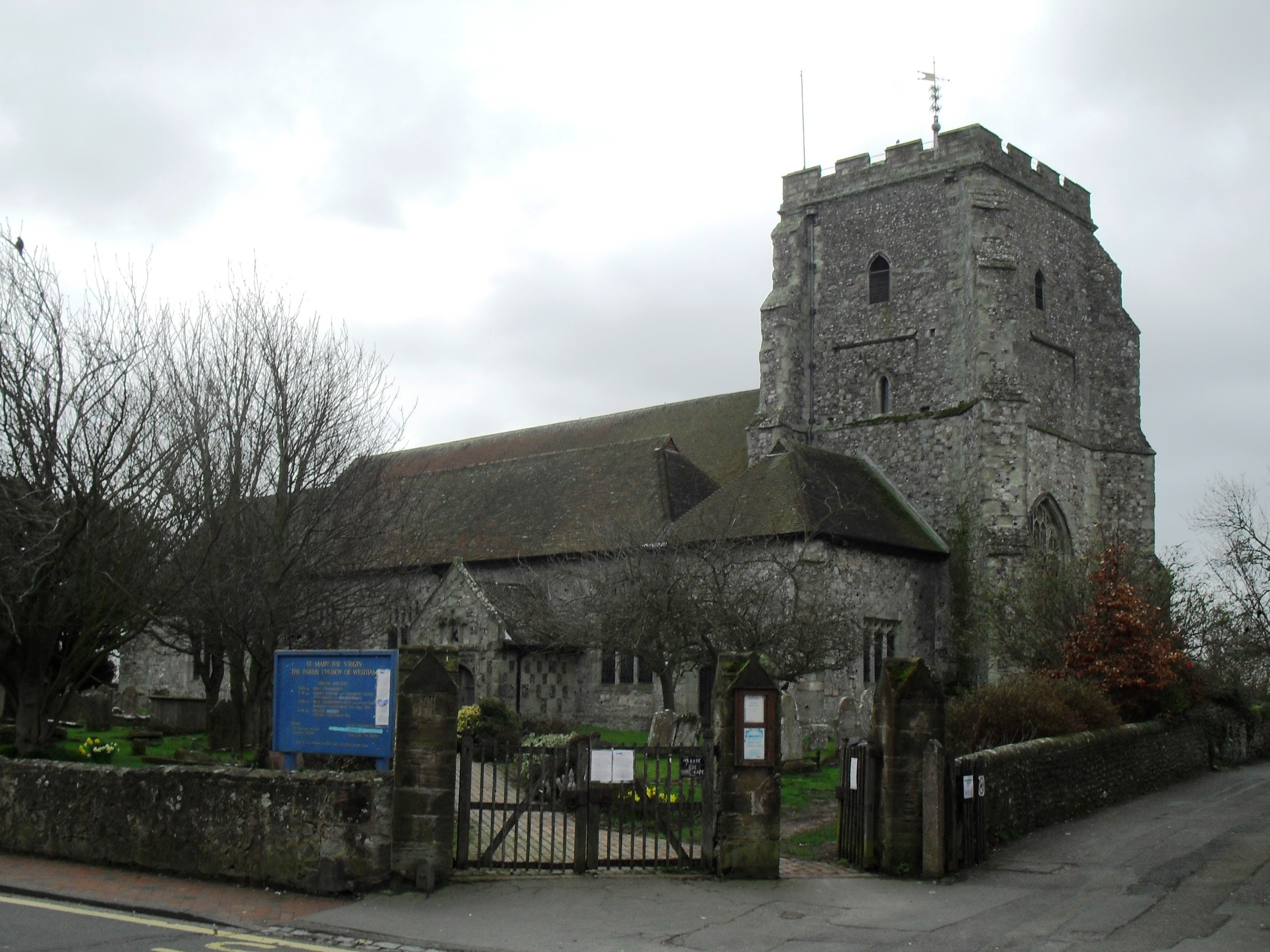 Parish church of St Mary the Virgin, Westham, Wealden district, East Sussex. Listed at Grade I by English Heritage (IoE Code 295771)